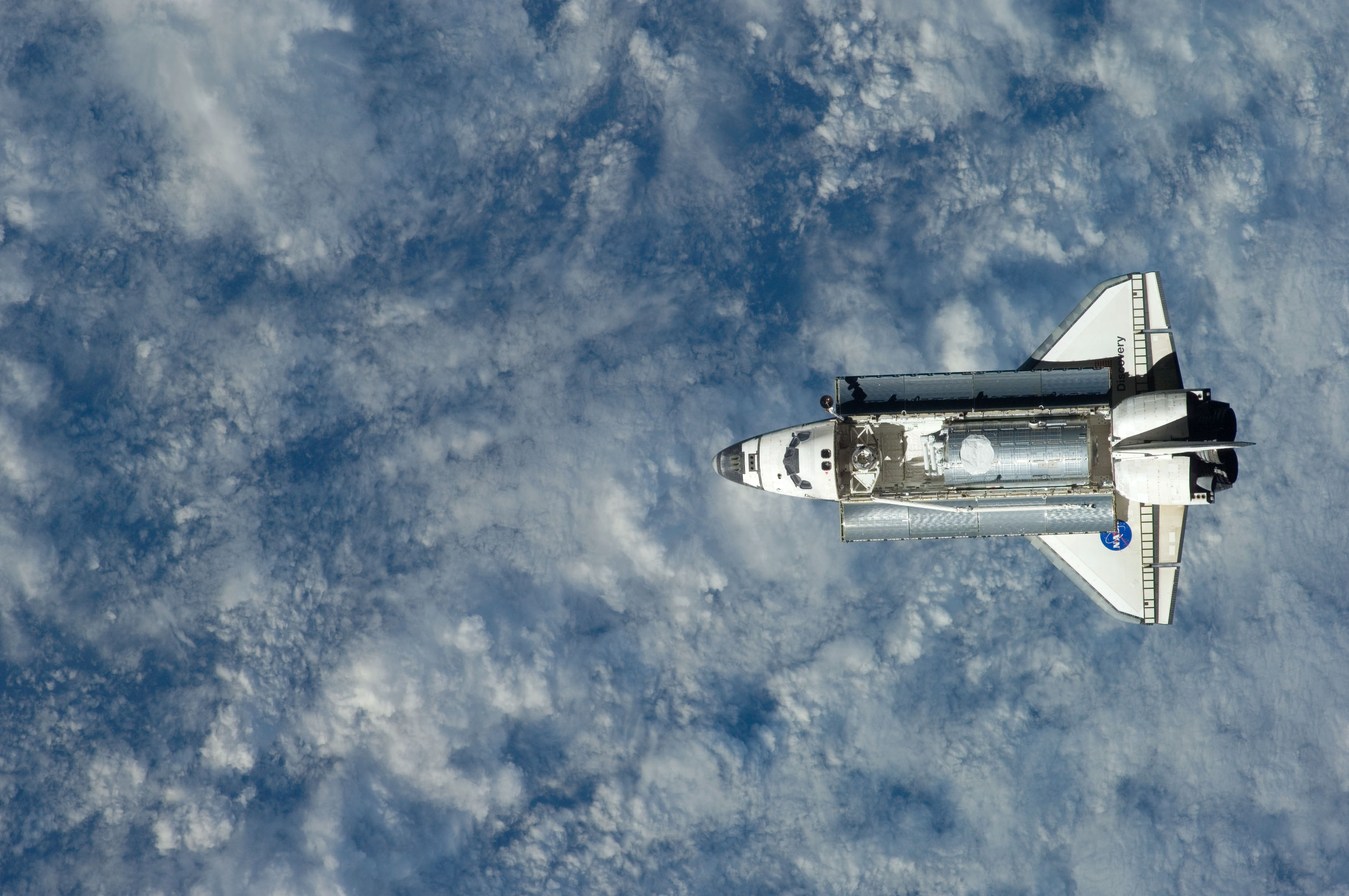 Backdropped by a cloud-covered part of Earth, Space Shuttle Discovery approaches the International Space Station during STS-124 rendezvous and docking operations. Docking occurred at 2:03 p.m. (EDT) on June 2, 2008. The second component of the Japan Aerospace Exploration Agency's Kibo laboratory, the Japanese Pressurized Module (JPM) is visible in Discovery's cargo bay.